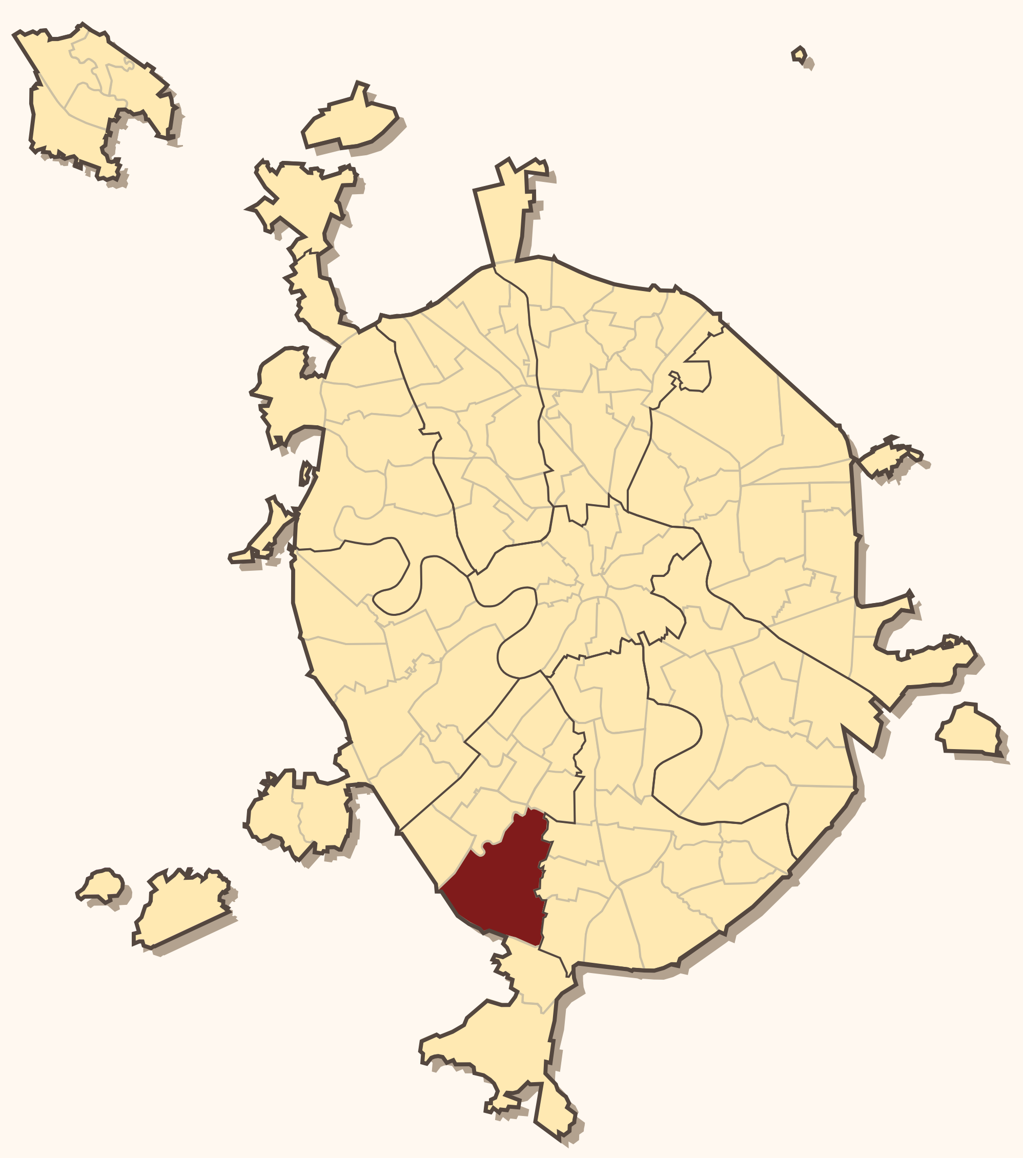 Moscow districts map